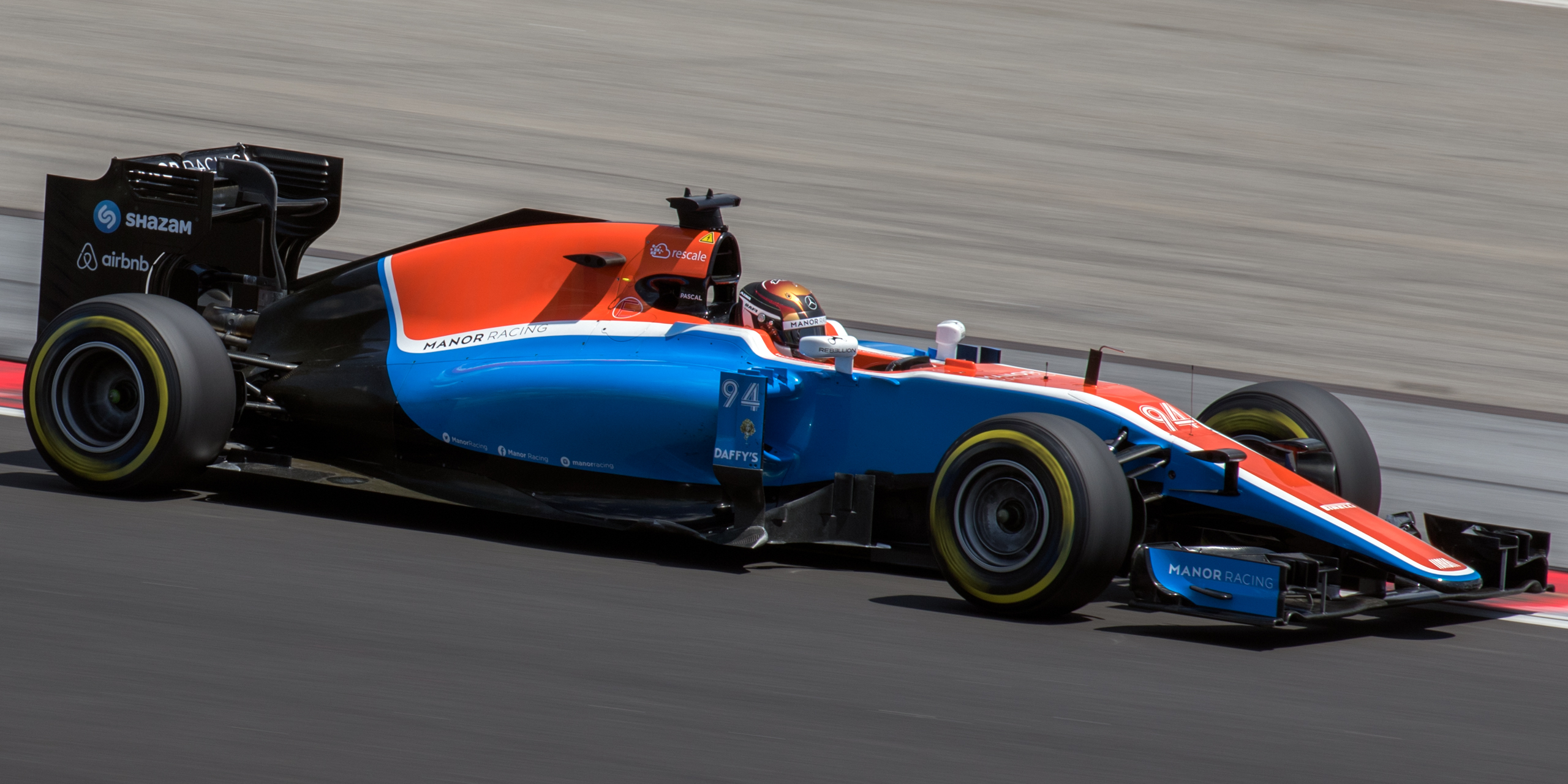 Formula One 2016 Rd.16 Malaysian GP: Pascal Wehrlein (MRT)